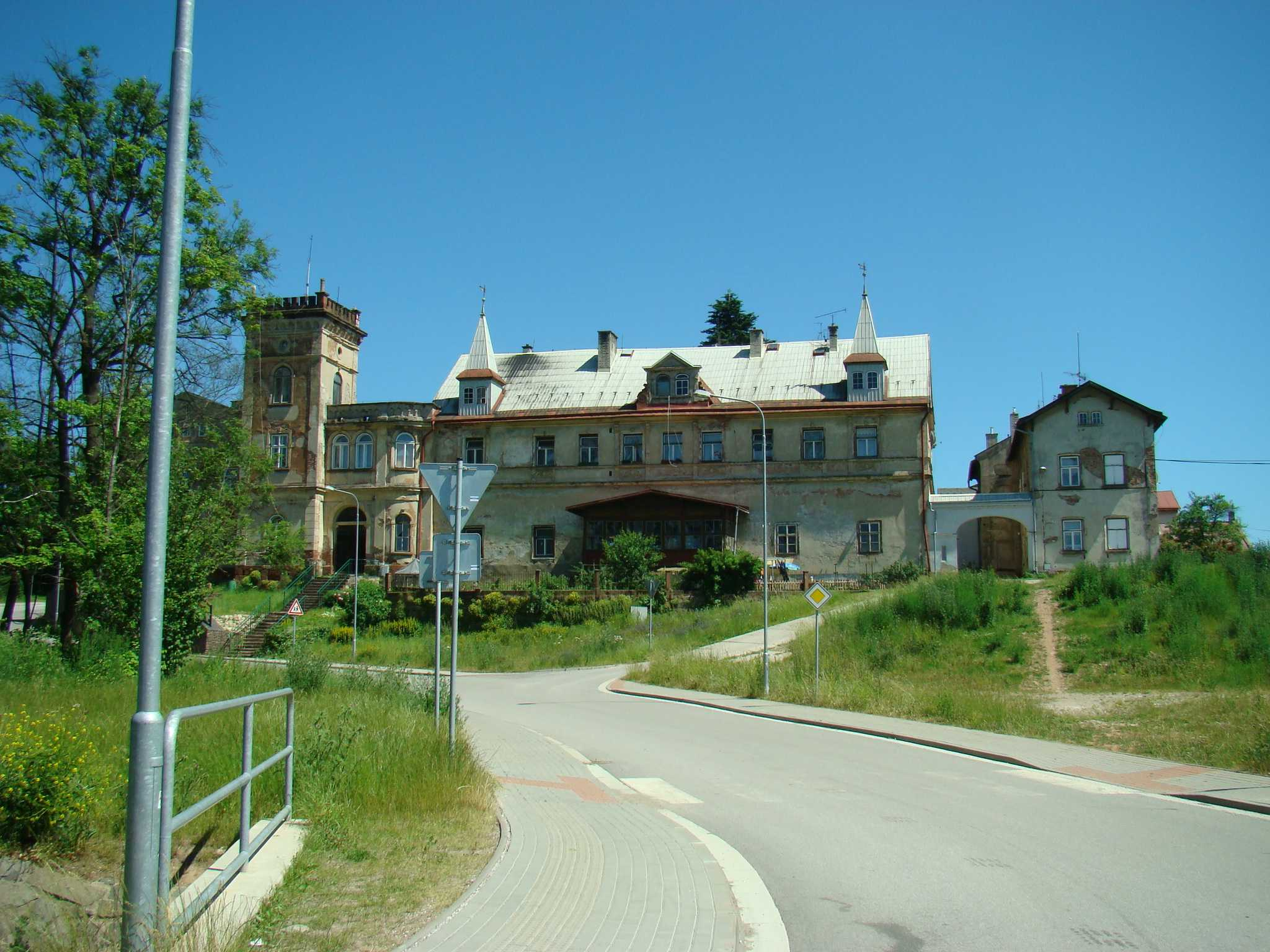 Castle in Vrchlabí-Podhůří of year 1888.